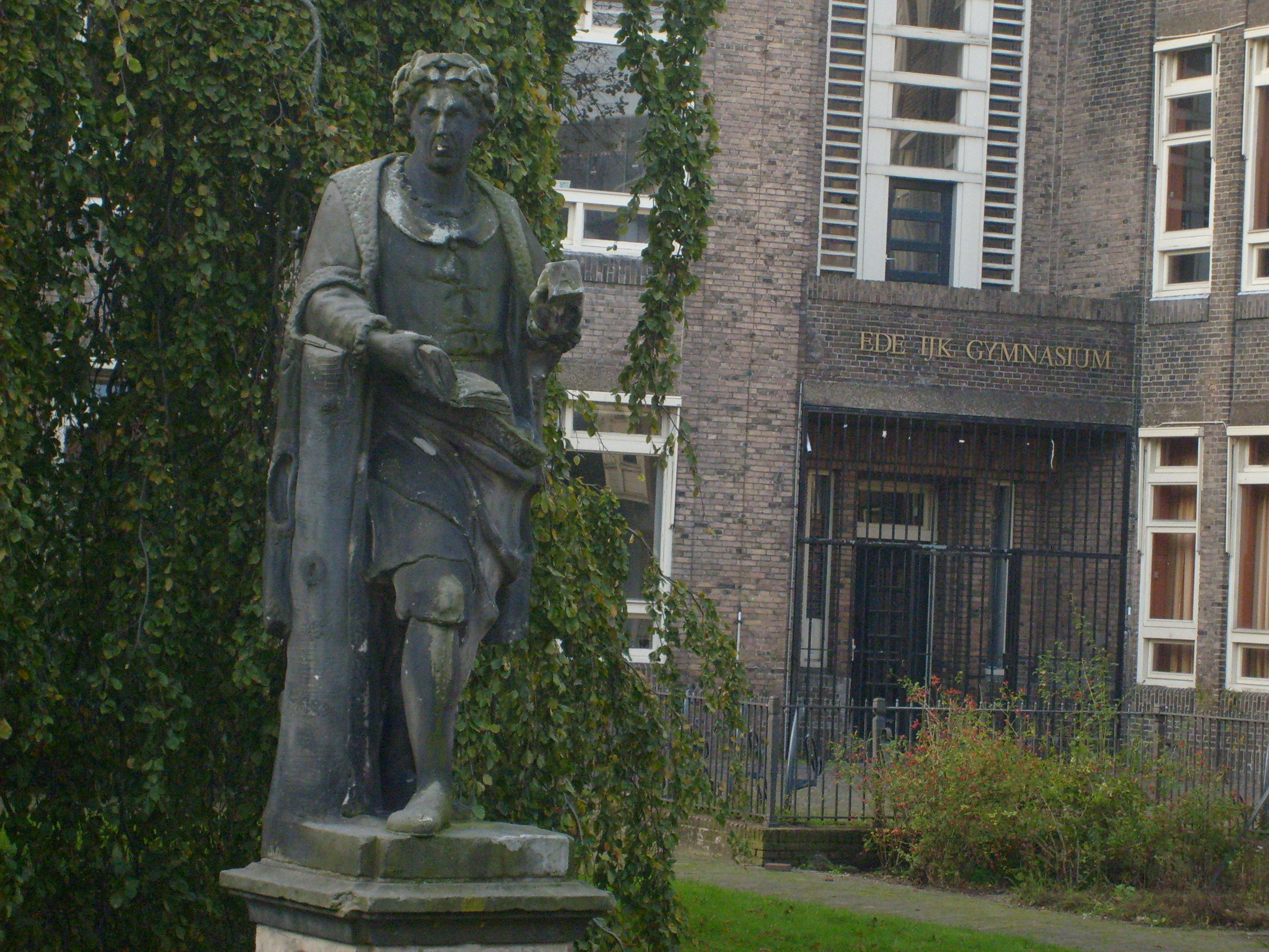 Laurens Janszoon Coster by Gerrit van Heerstal, date: 1722. Location: Prinsenhof, Haarlem, The Netherlands